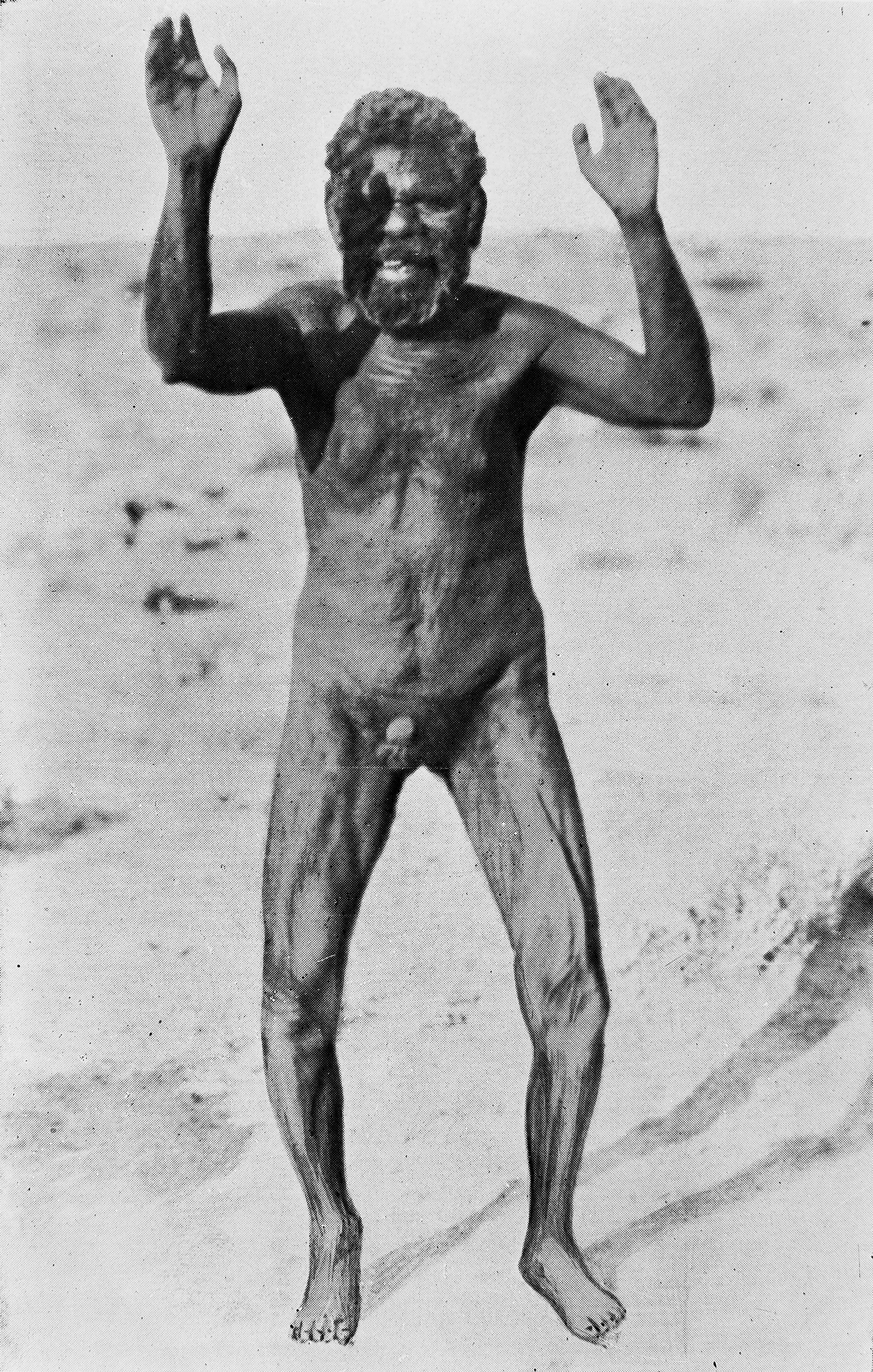 A "boned" man, Minning people, Australia. General Collections Keywords: causation of disease; Ethnology; indigenous non-european medicine